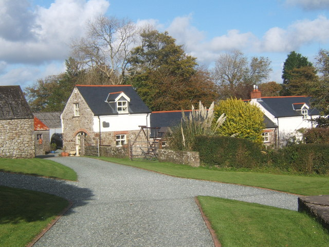 Llawhaden village As well as the castle, the village is worth looking around.